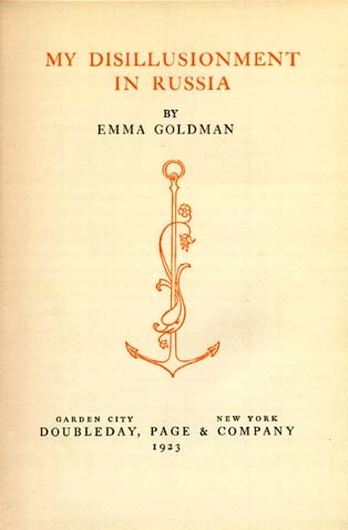 Cover of the book My Disillusionment in Russia by Emma Goldman.